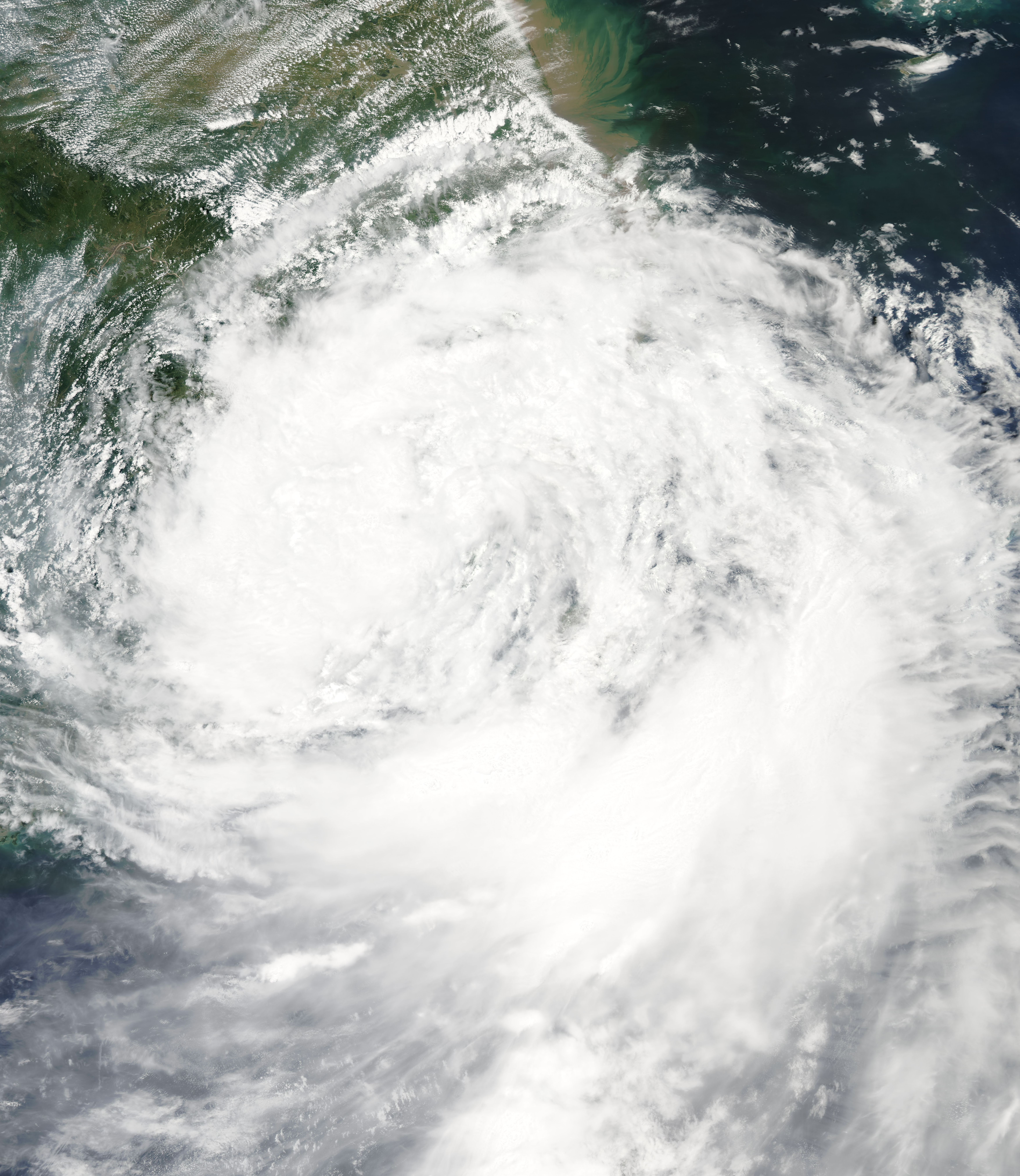 MODIS image of Tropical Storm Bilis inland over eastern China. Image taken on July 14 at 0520 UTC.